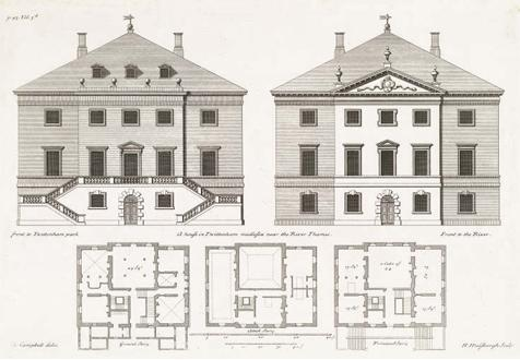 Designs for Marble Hill, Twickenham, London. Lord Herbert & Roger Morris, 1724-29 Royal Institute of British Architects Library Drawings Collection